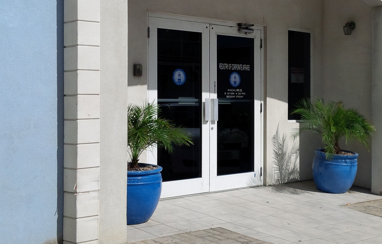 Photograph of the entrance to the British Virgin Islands Companies Registry (Registry of Corporate Affairs).